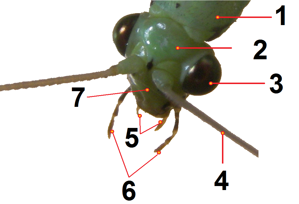 Chrysopidae from Saint Petersburg. Pretty confident that this should be Chrysopa pallens (a.k.a. Ch.septempunctata), but not an expert for the Chrysopidae of the region - Pudding4brains (talk) 02:41, 29 February 2012 (UTC)